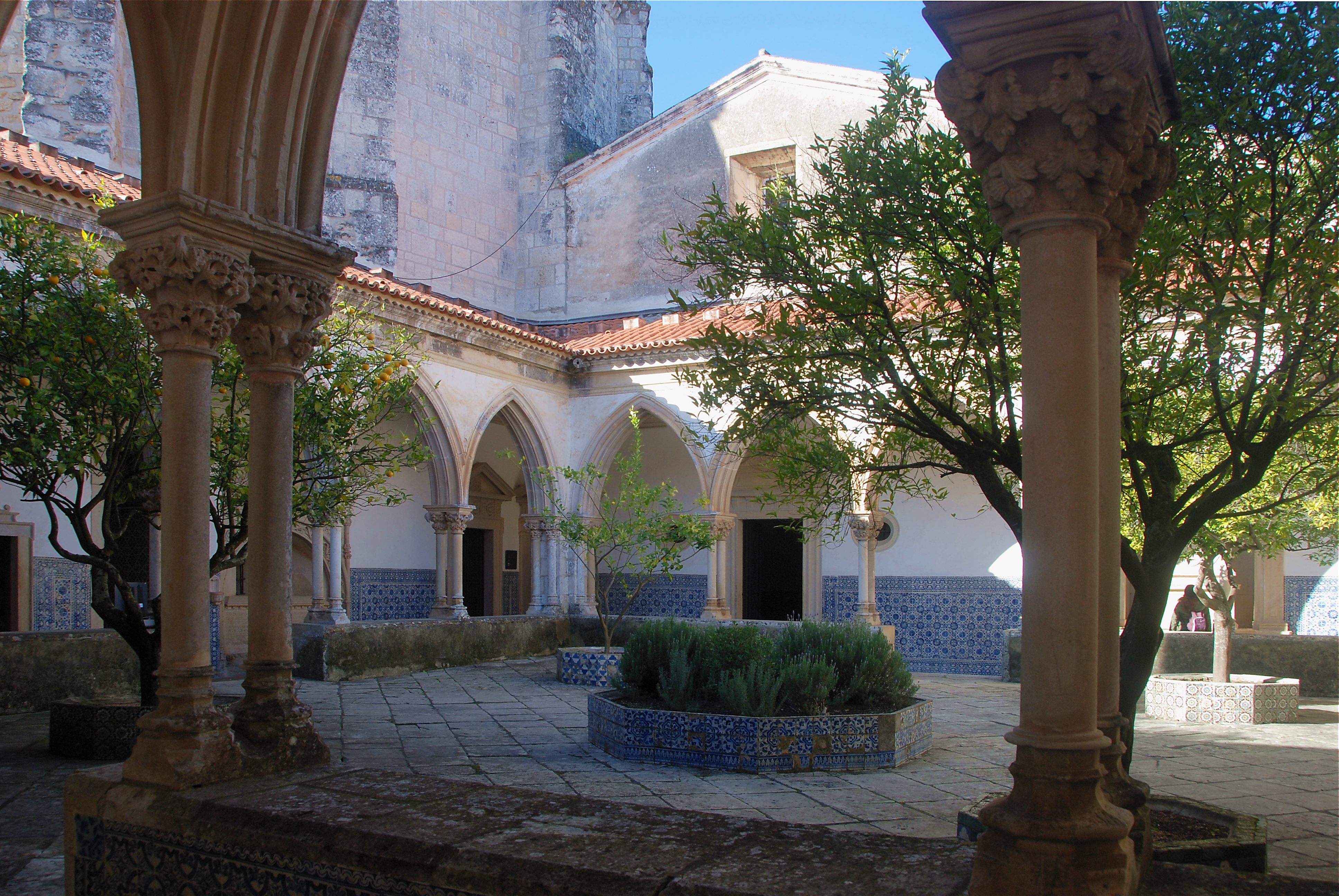 Convent of Christ, Tomar, Portugal. Cloister of the cemitery.